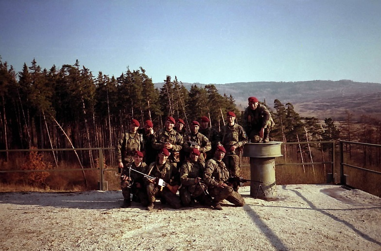 Czechoslovakian paratroopers, early 1990s